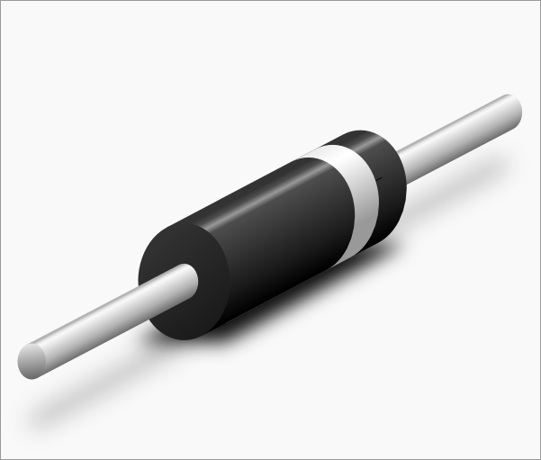 Diode